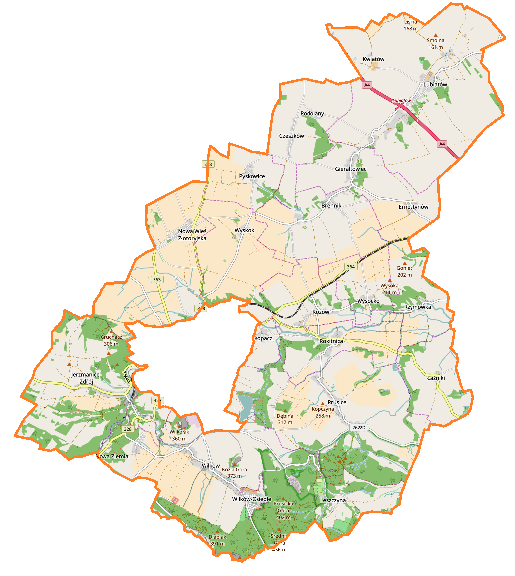 Location map